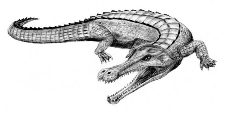 Sarcosuchus imperator, pencil drawing